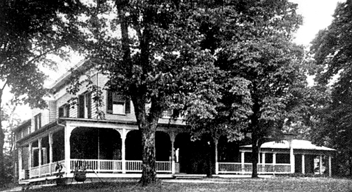 This image is part of the collection of historic photographs of Baltimore County, Maryland USA owned by the Baltimore County Public Library, Towson Maryland USA.